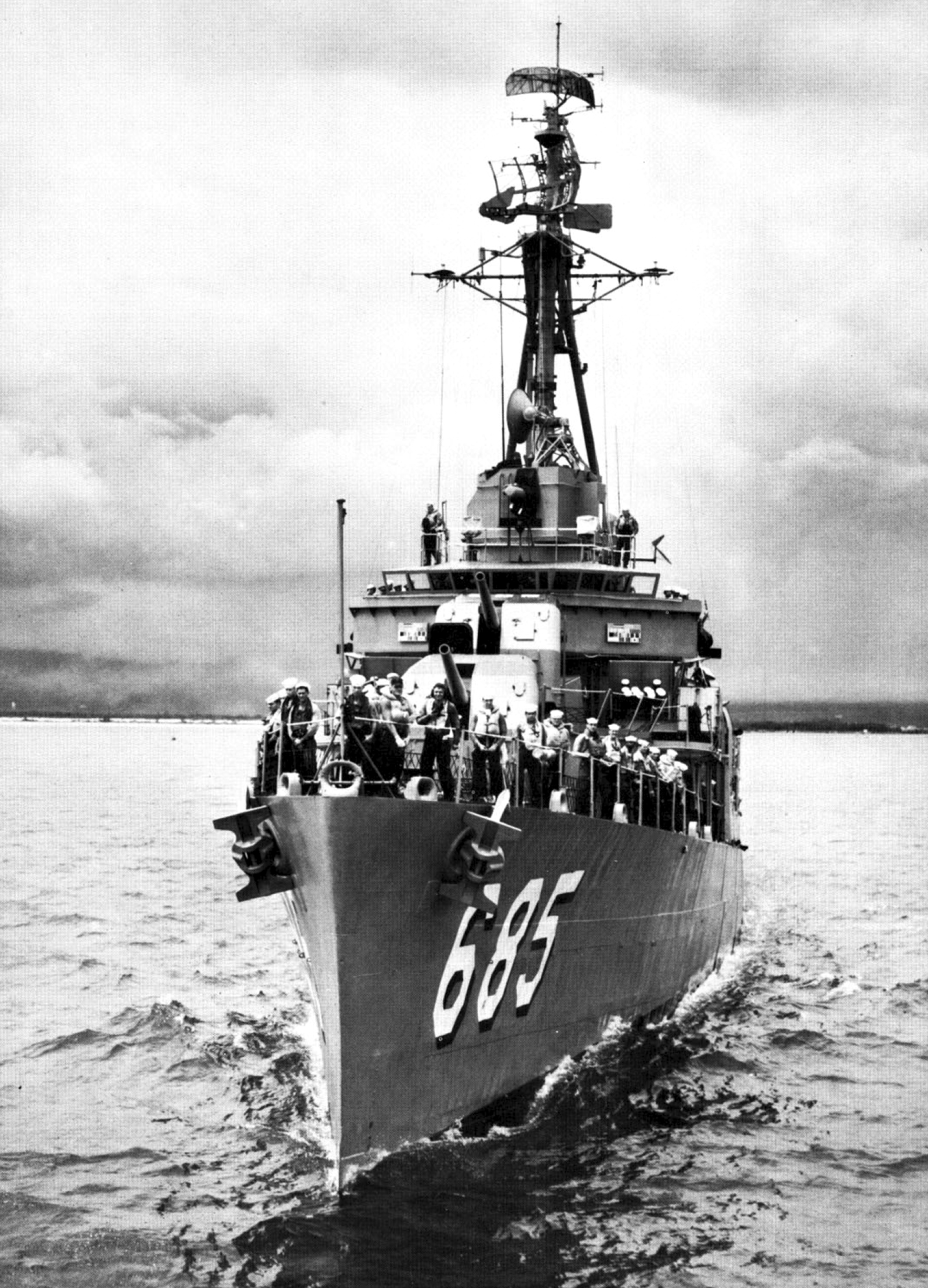 The U.S. Navy destroyer USS Picking (DD-685) underway off Oahu, Hawaii (USA), circa 1963.